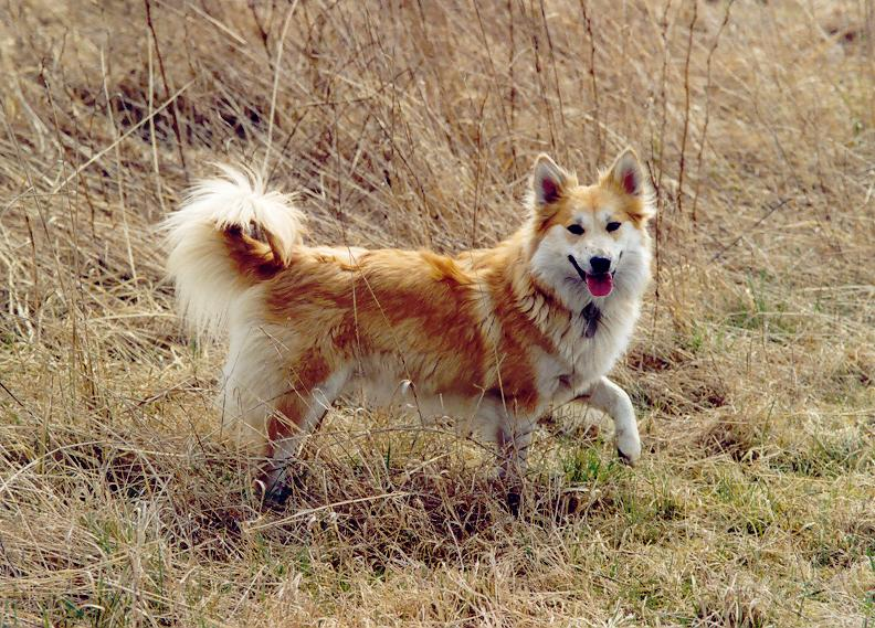 Víf vom Schloss Neubronn our Icelandic sheepdog. Tolt, smooth gait of a wonderful dog ;-) We made this photo in spring 2003. She was one and a half years old at that time. Note: Please contact me if you need more pictures. Gangleri 01:53, 2004 Sep 25 (UTC) Known use of the image / Known links here from other Vikipedias Russian "Icelandic sheepdog" stub Please insert a link to this list if you use the picture from within an additional Vikipedia or project. Thanks! Gangleri 11:07, 2004 Sep 25 (UTC) German "Icelandic sheepdog" stub Gangleri 01:22, 2004 Sep 29 (UTC) Hungarian grin ✎ 15:42, 2004 Oct 21 (UTC) Serbian - Dog pictures gallery -- Obradović Goran (talk 02:16, 19 January 2006 (UTC) Note: Please note that links from other Vikipedias (and also other Wiki projects?) may point to this picture. At the moment Whatlinkshere will not show these links. Please take care of the links mentioned above if you move the picture. Would be happy to know / to learn more about InterWiKi handling of images and (common) procedures as for Wikipedia:Featured_picture_candidates ... For InterWiki issues you may start reading at Help:Interwiki_linking (or full link . Gangleri 11:07, 2004 Sep 25 (UTC)